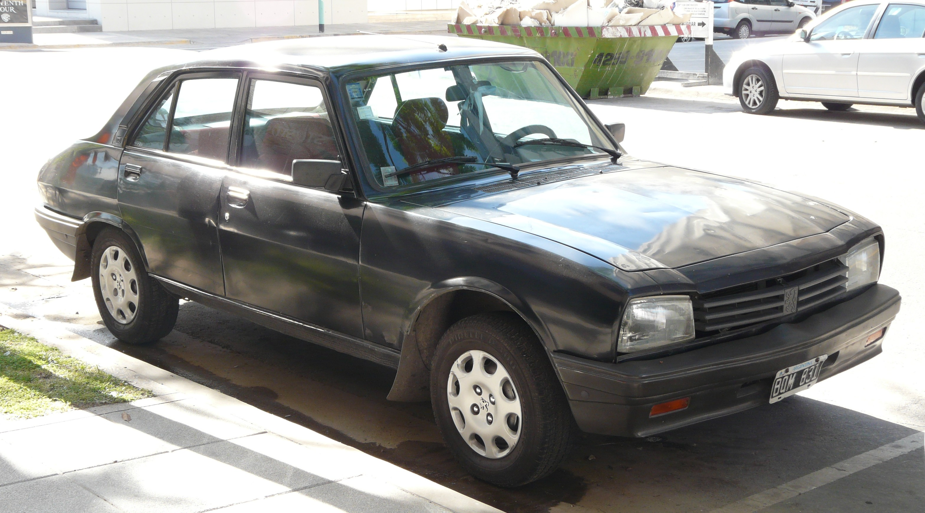 Peugeot 504 (Argentinian mid-1990s model), Buenos Aires, Argentina, November 2008.